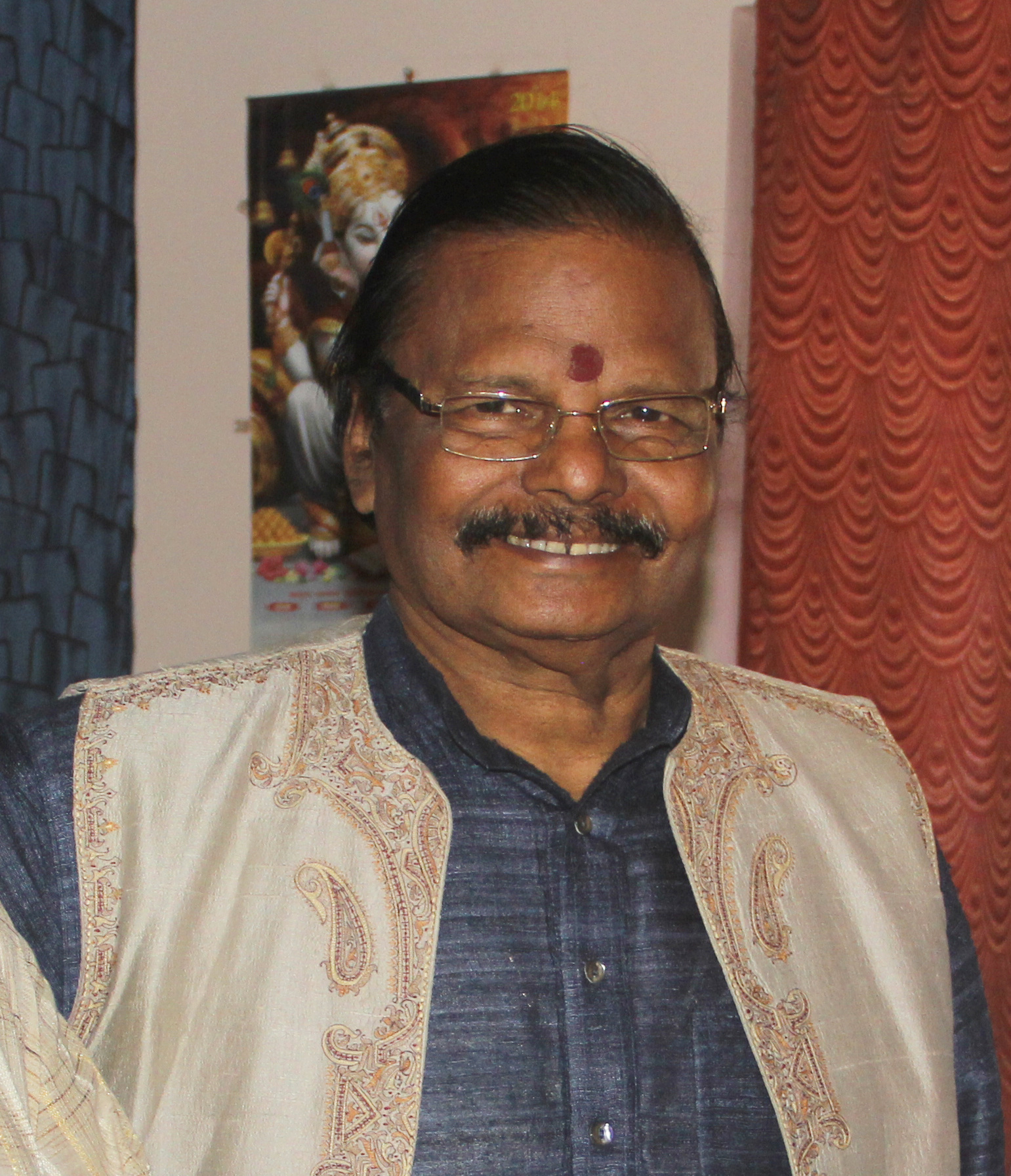 ଓଡ଼ିଆ: Noted Architect and Sculptor Padma Vibhushan Raghunath Mohapatra